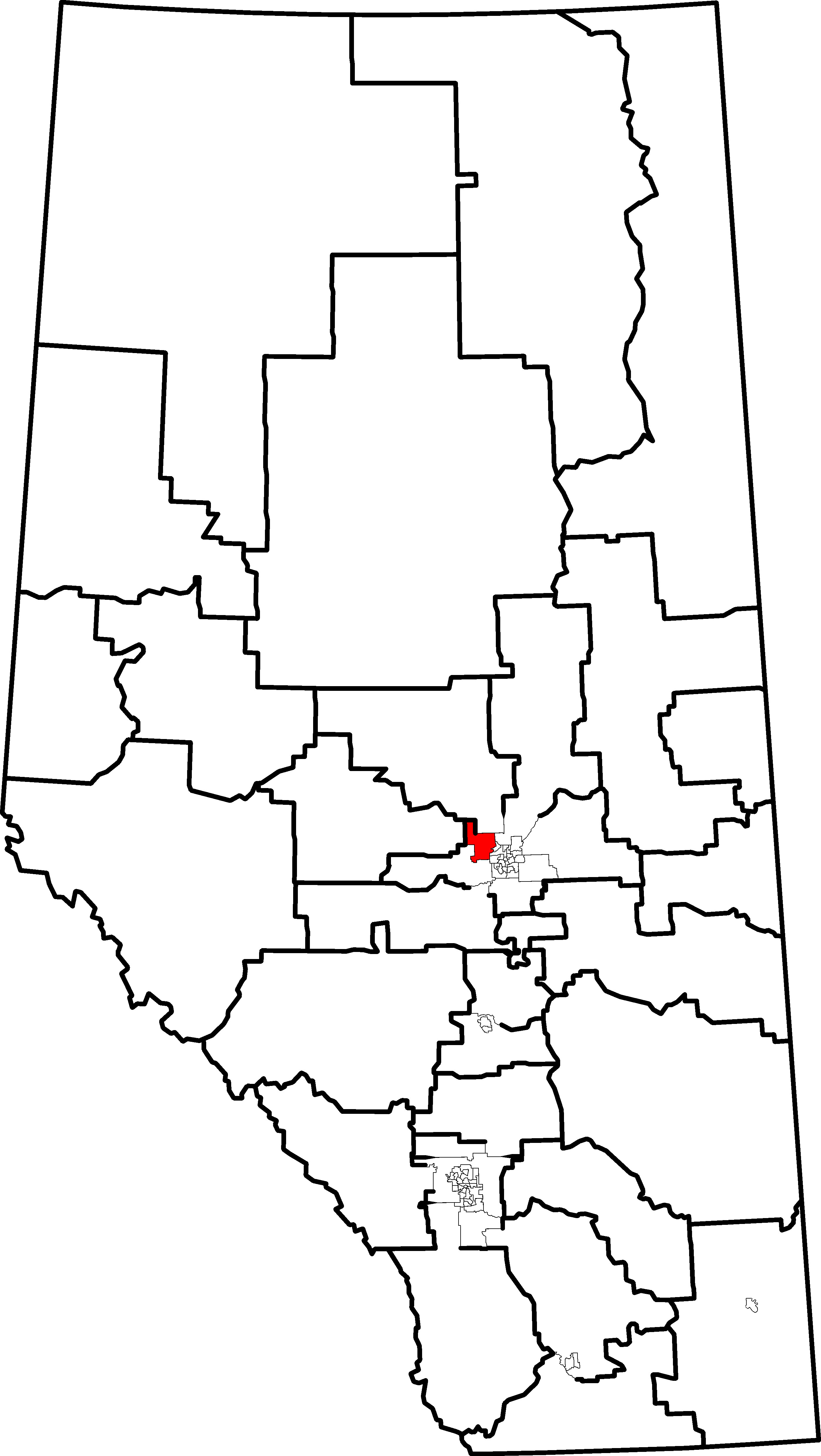 A map of the Alberta provincial electoral districts, effective 2010. Spruce Grove-St. Albert is highlighted in red.